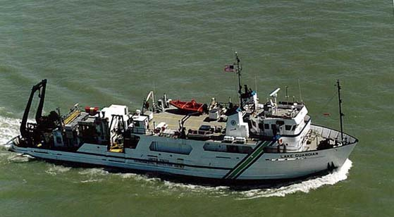 The R/V Peter Wise Lake Guardian, a 180-foot research vessel owned by the U.S. Environmental Protection Agency.